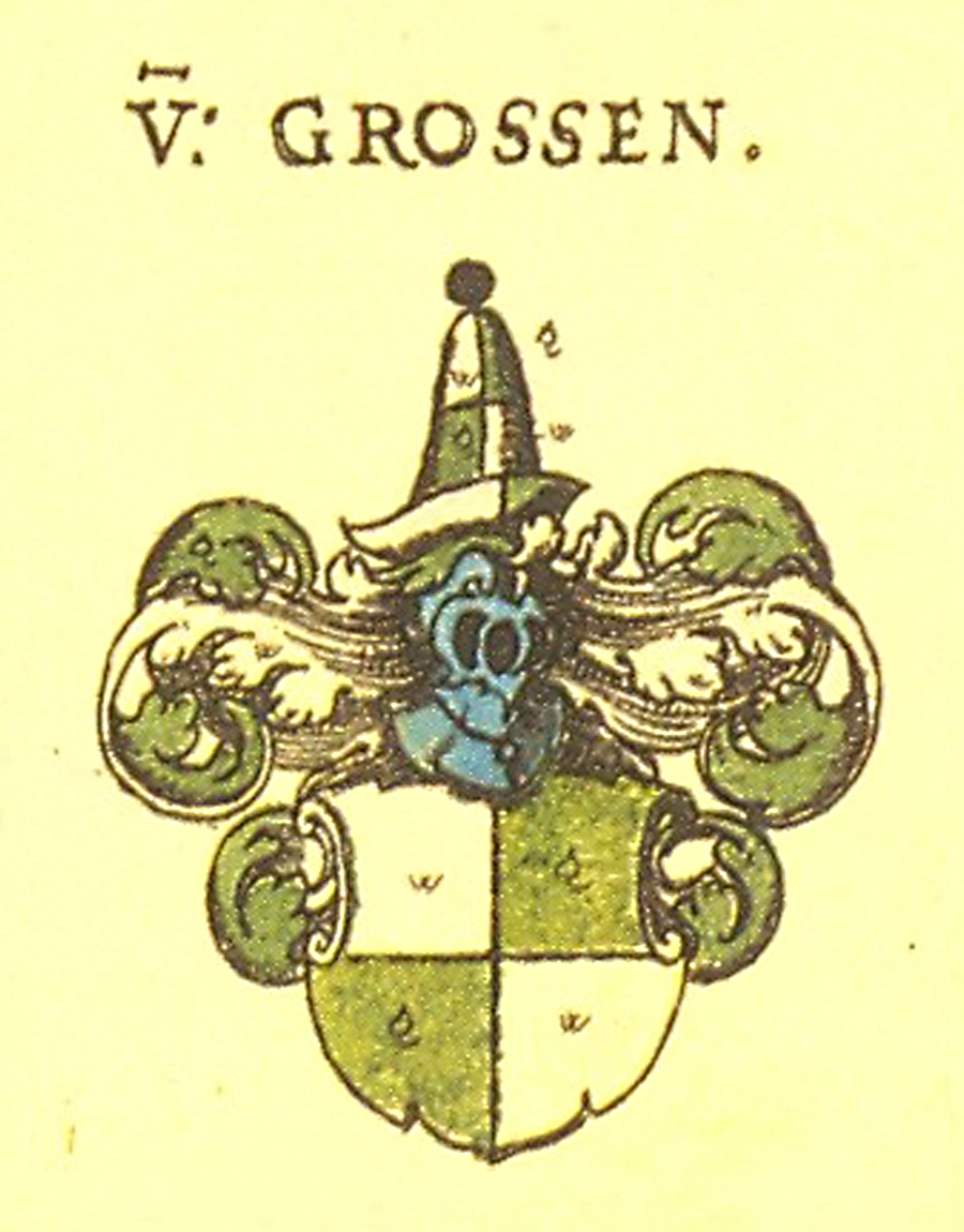 Coat of arms of von Grosse (Große)